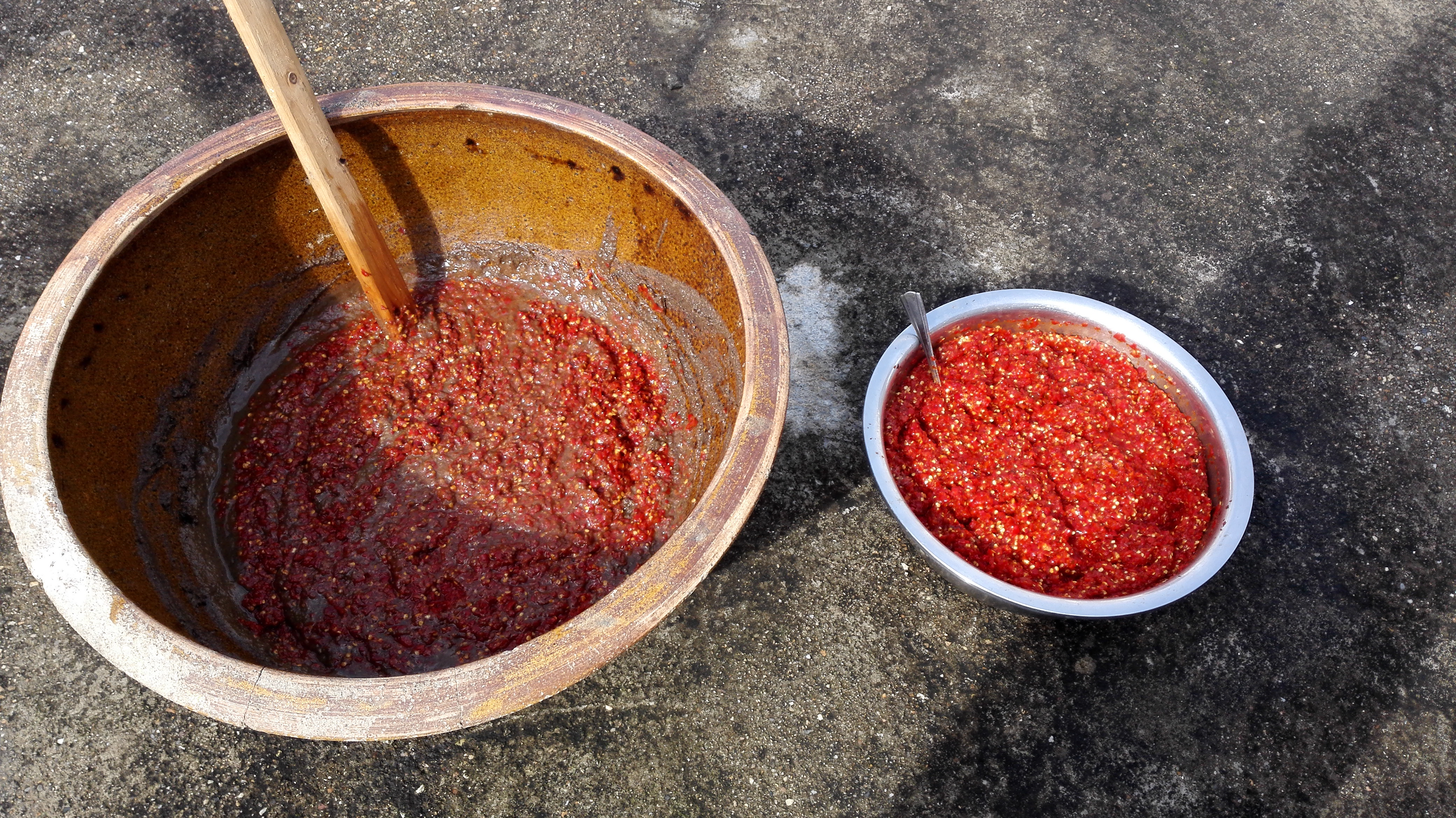 This is a photo taken when the sauce is put under sunshine